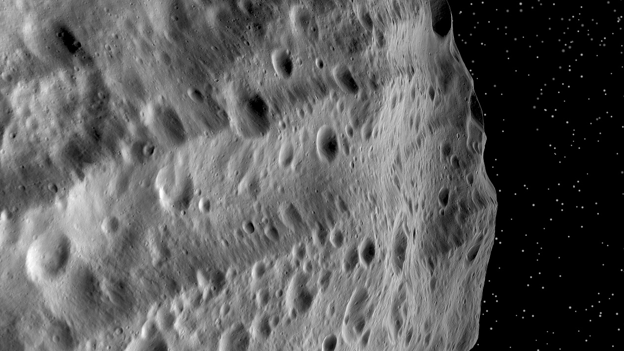 This image from NASA's Dawn mission shows huge grooves on the giant asteroid Vesta that were the result of mega impacts at the south pole. As Dawn sent the first close-up images of Vesta back to Earth in July 2011, scientists immediately noticed numerous grooves, as if created by a gigantic plow. This image shows two grooves in the Divalia Fossa system, running parallel to the lower edge of the image. The majority of these grooves extend along the equator, but a second group -- inclined with respect to the equator -- have been identified in the northern hemisphere. These parallel trenches are usually several hundred miles (kilometers) long, up to 9 miles (15 kilometers) wide and more than a half mile (1 kilometer) deep. They are the result of two large asteroid impacts far in the southern hemisphere, demonstrating that impact events that occurred hundreds of miles (kilometers) apart caused shocks throughout Vesta and altered its surface. The scene is an artificially generated oblique view of the grooves (or troughs) that run along Vesta's equator. The image was rendered from a global mosaic of Vesta processed from thousands of individual images obtained by the framing camera between January and April 2012. The altitude was approximately 130 miles (210 kilometers) above Vesta's surface. The image resolution is about 70 feet (20 meters) per pixel.